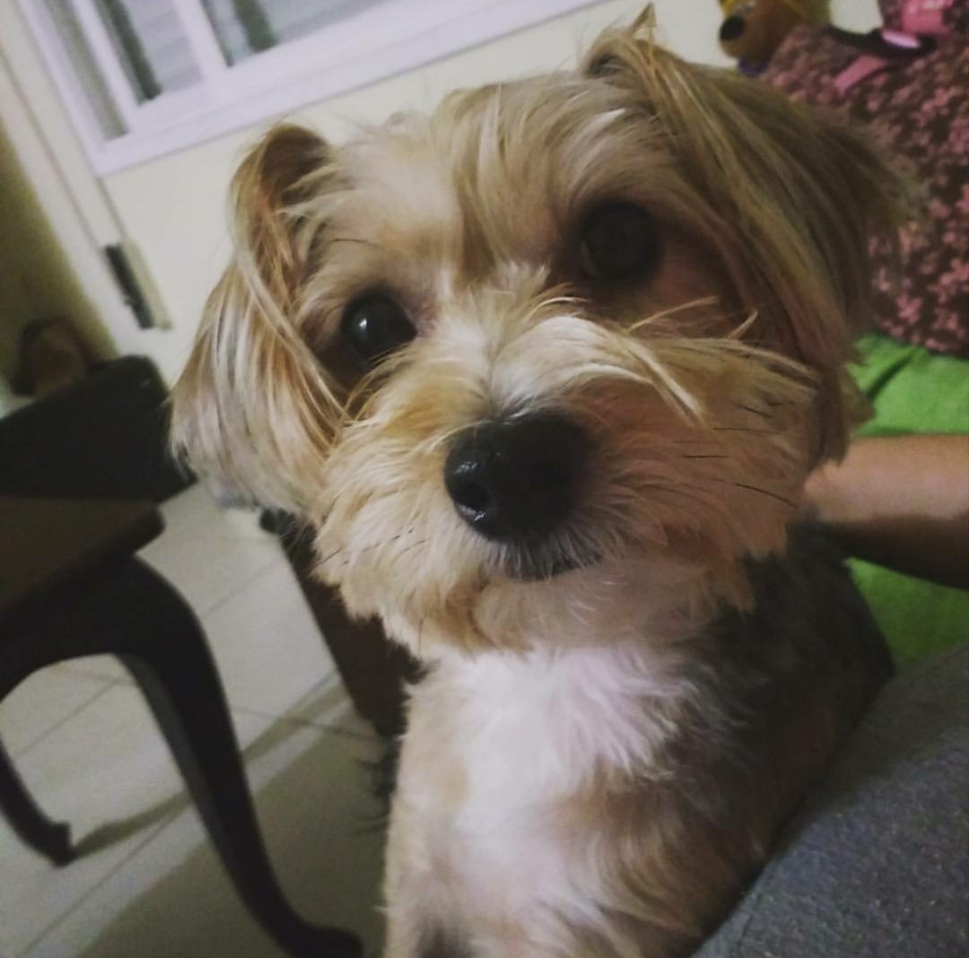 morkie dog's head